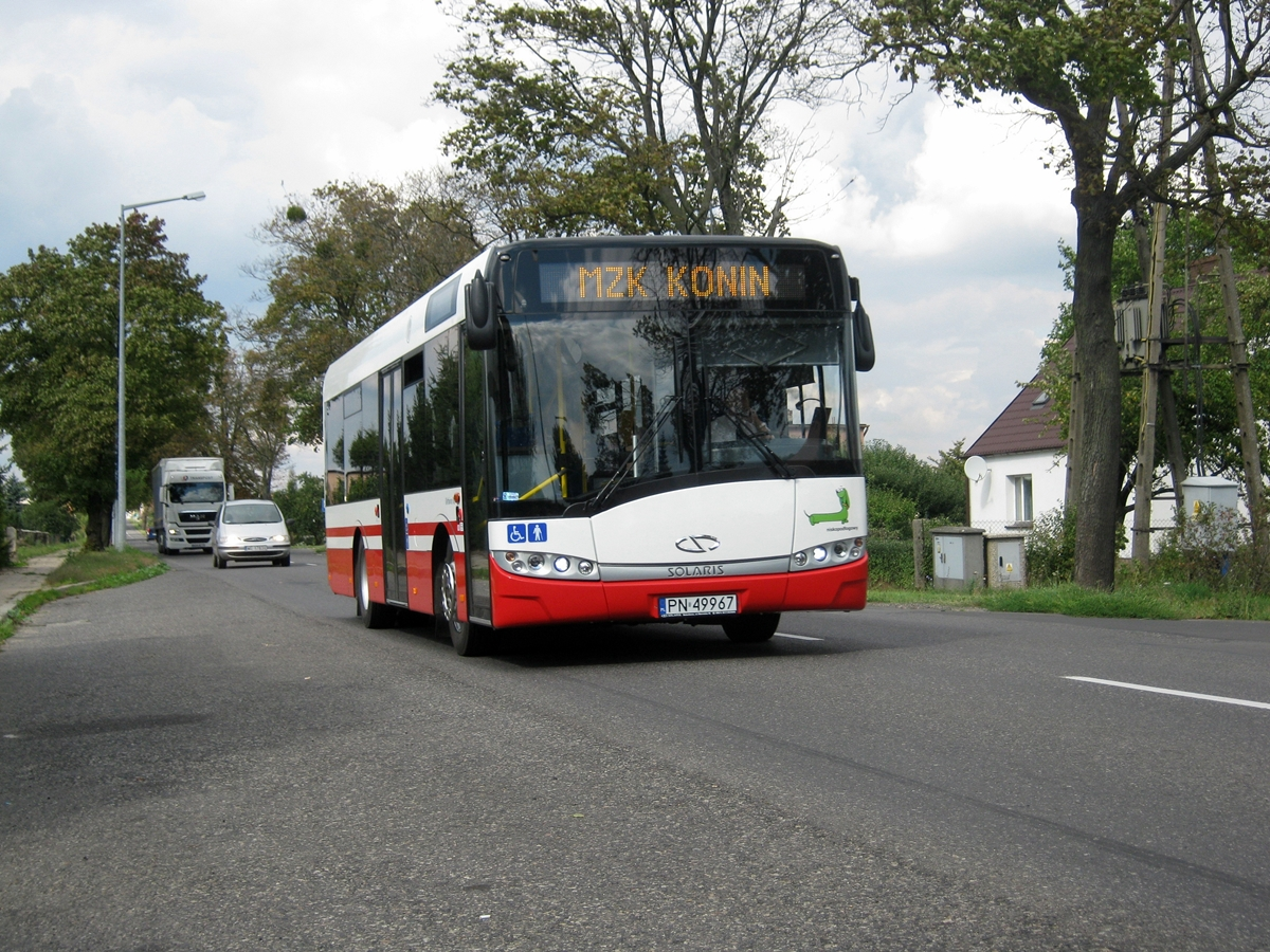 Solaris Urbino 10 bus (#300, reg. PN 49967) in Witków, Greater Poland Voivodeship, Poland. Built 2011, MZK Konin operator.